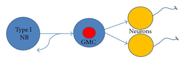 Neural stem cells/neuroblast (NB) undergo two types of self-renewing cell divisions: symmetric (proliferating) and/or asymmetric (differentiating). (a) Type I NB self-renew, and also generates a ganglion mother cell (GMC) which divides only once to generate two postmitotic daughter cells that differentiate into neurons or glial cells [2, 16–18]. (b) Type II NB initiates expression of the proneural gene asense and becomes an intermediate neural precursor (INP), which undergoes self-renewing asymmetric divisions, with each division resulting in one INP and one GMC [22–26]. Type II NB generates much larger lineages compared to type I NB.